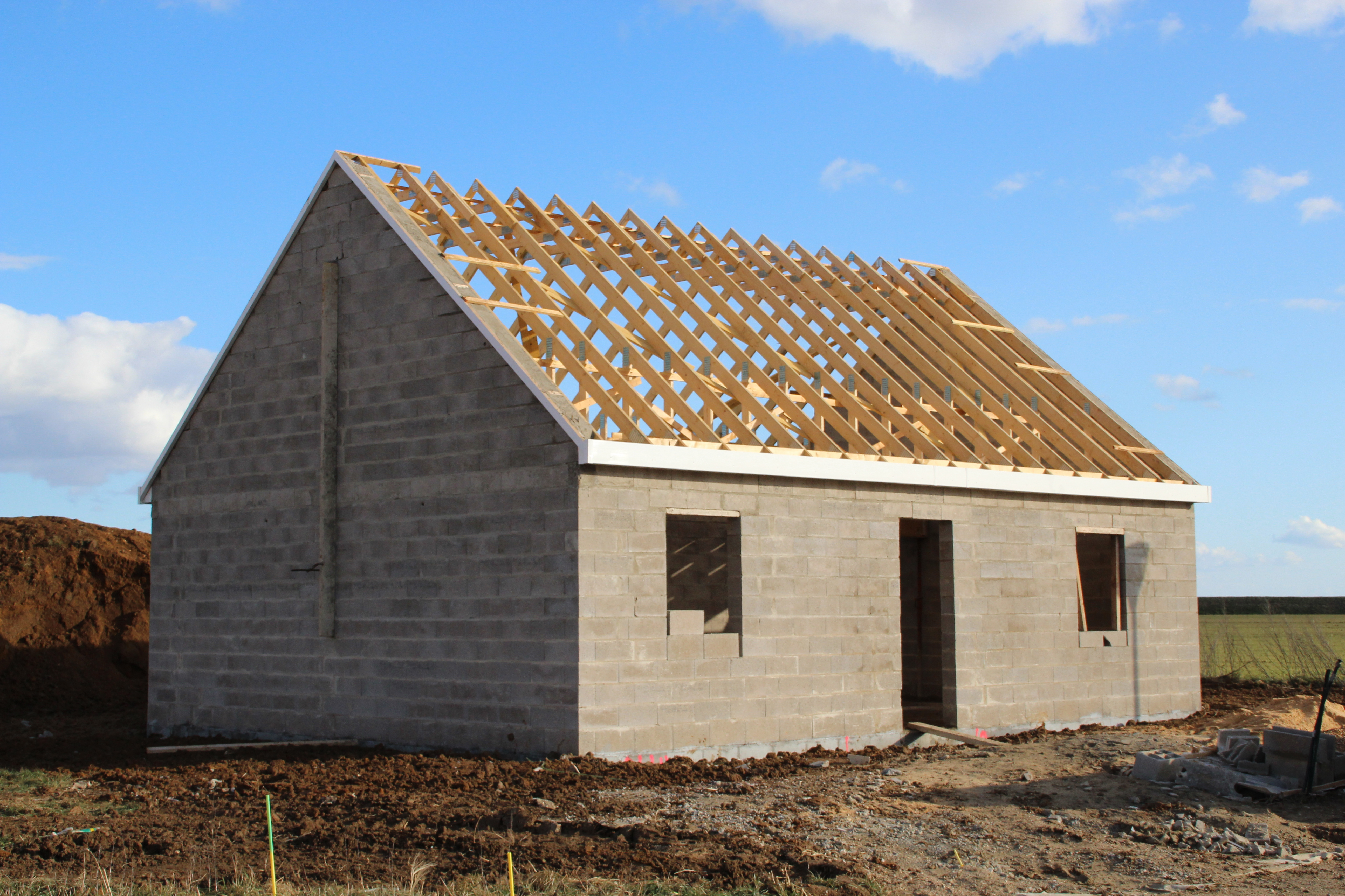 Construction sites of individual homes in Ablis, France.